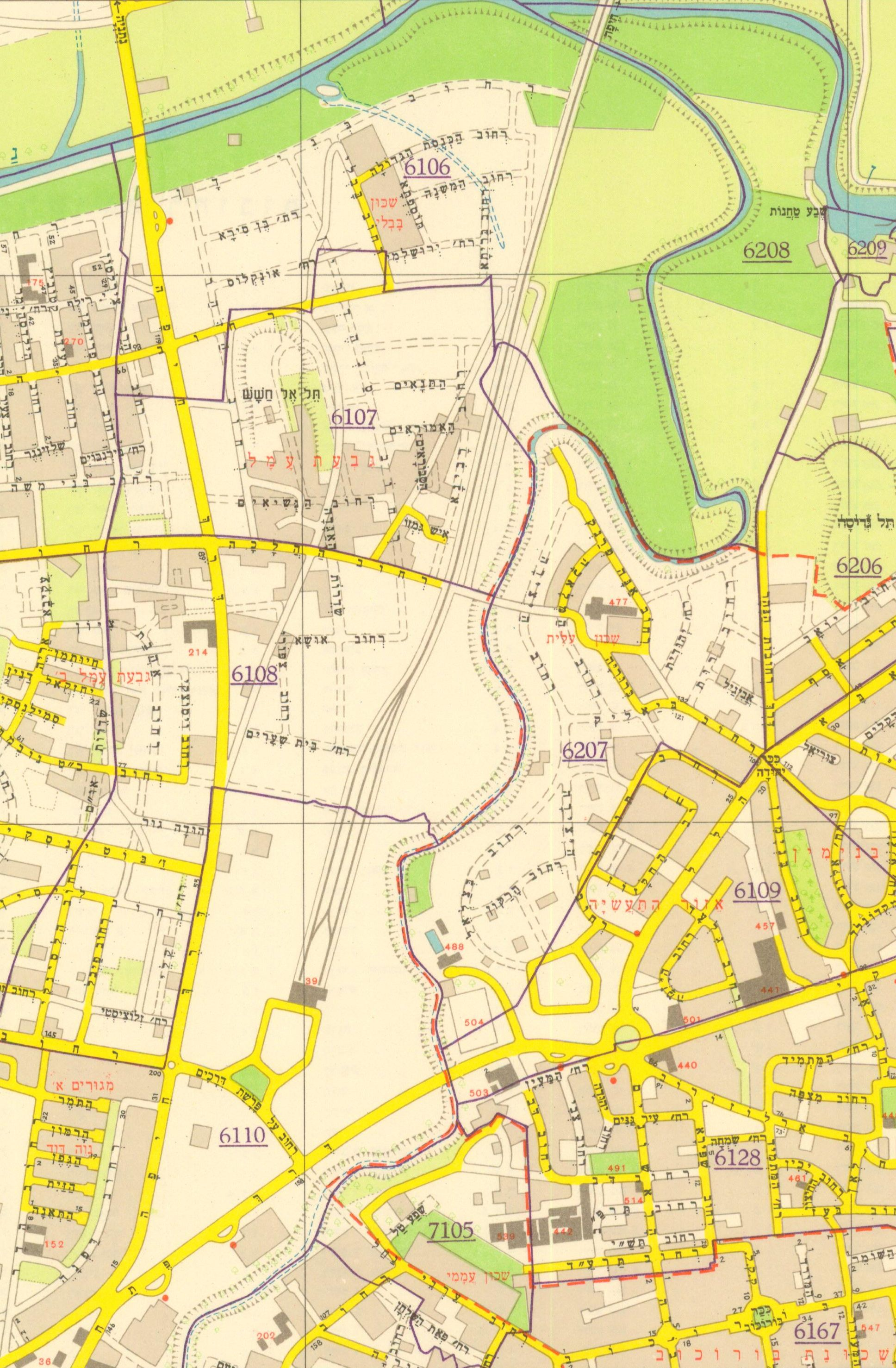 The original Tel Aviv Central railway station before its relocation in 1988, as seen on a map from 1958